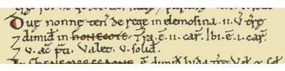 Domesday Book entry for Holnicote in the parish of Selworthy, Somerset